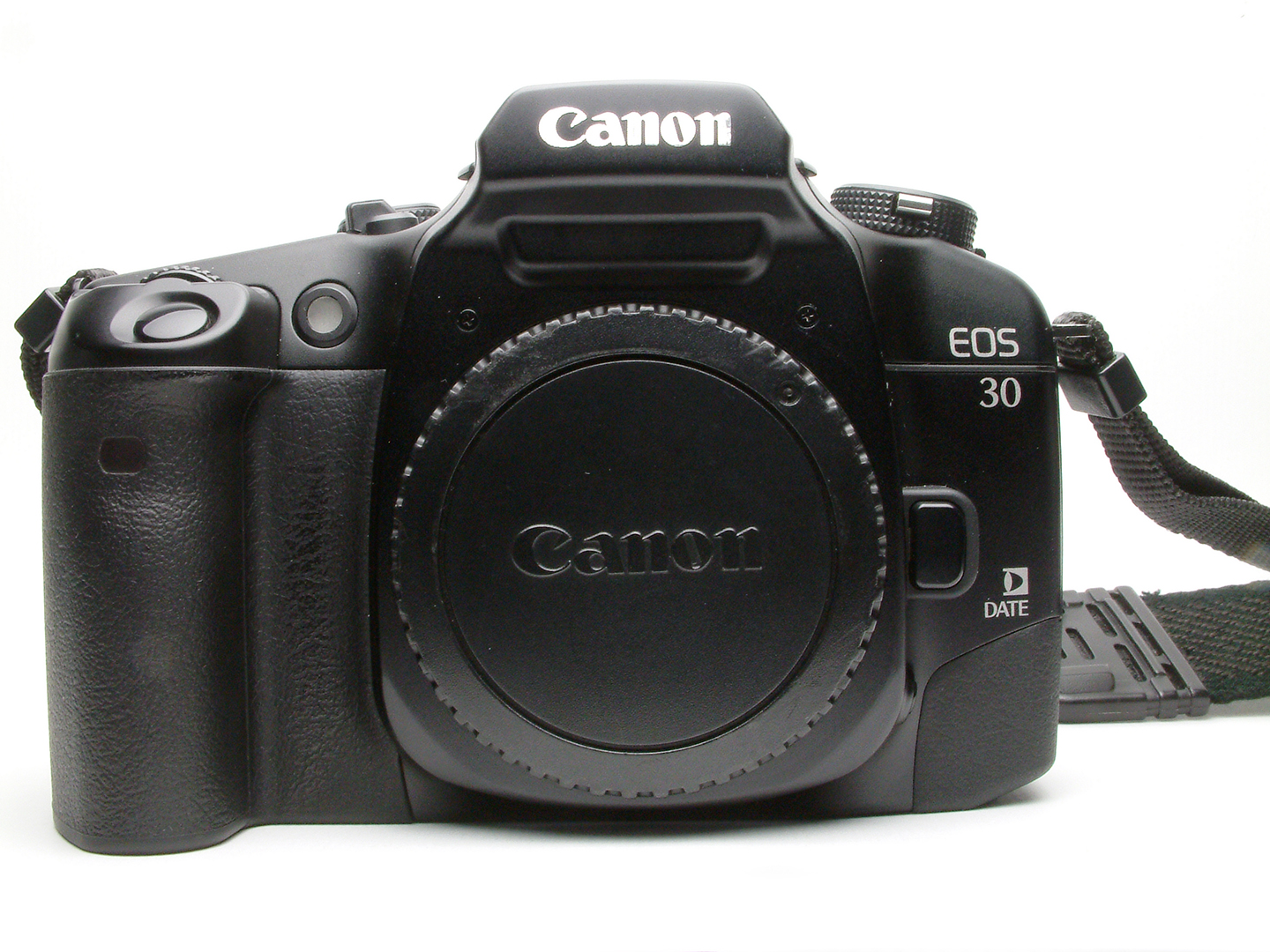 Canon EOS 30